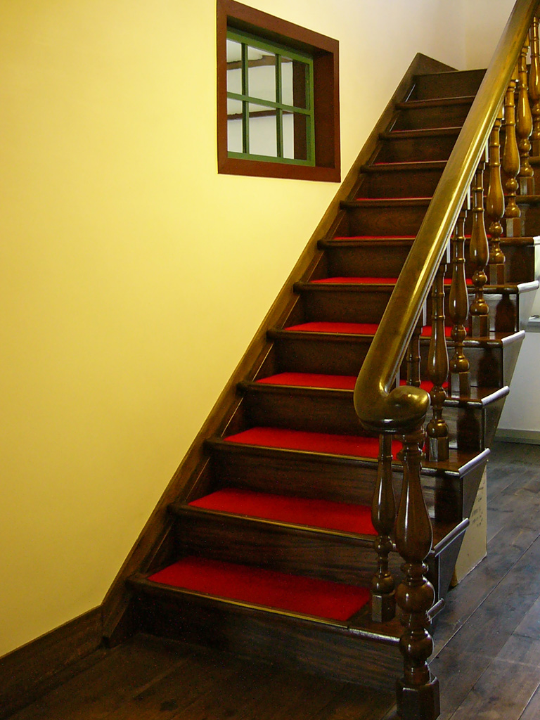 Former Kaichi School in Matsumoto, Japan